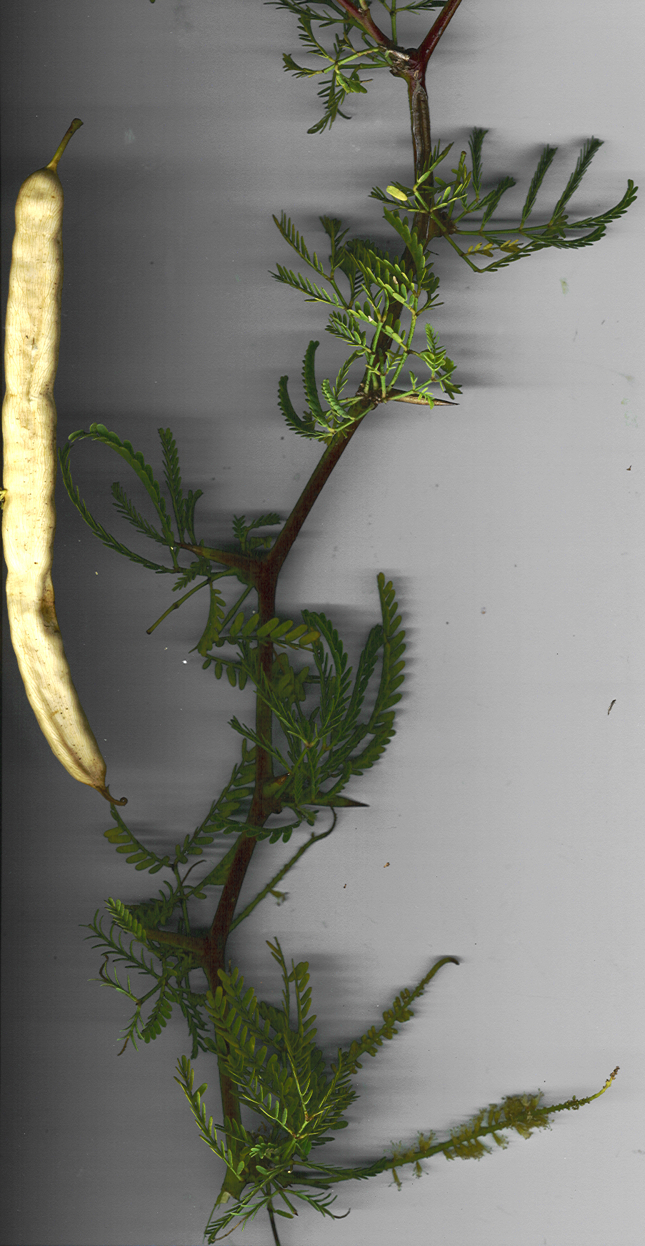 Prosopis pallida (branch flower and seed pod). Location: Maui, Lipoa Kihei